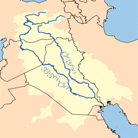 Tigris and Euphrates, georgian